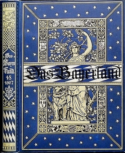 Zeitschrift "Das Bayerland" Jahrgangsband 1907